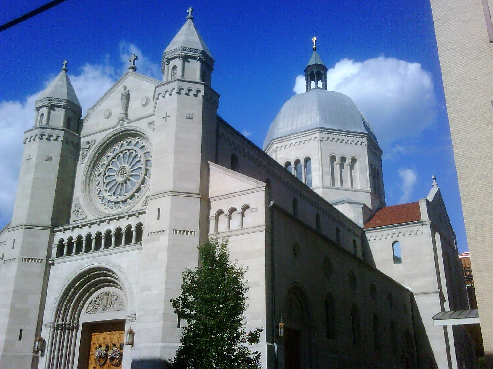 St. Joseph Cathedral in Wheeling, West Virginia